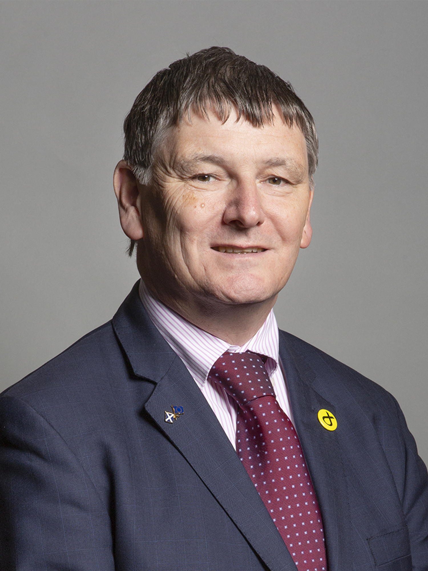 Official portrait of Peter Grant MP 3×4 portrait of Peter Grant